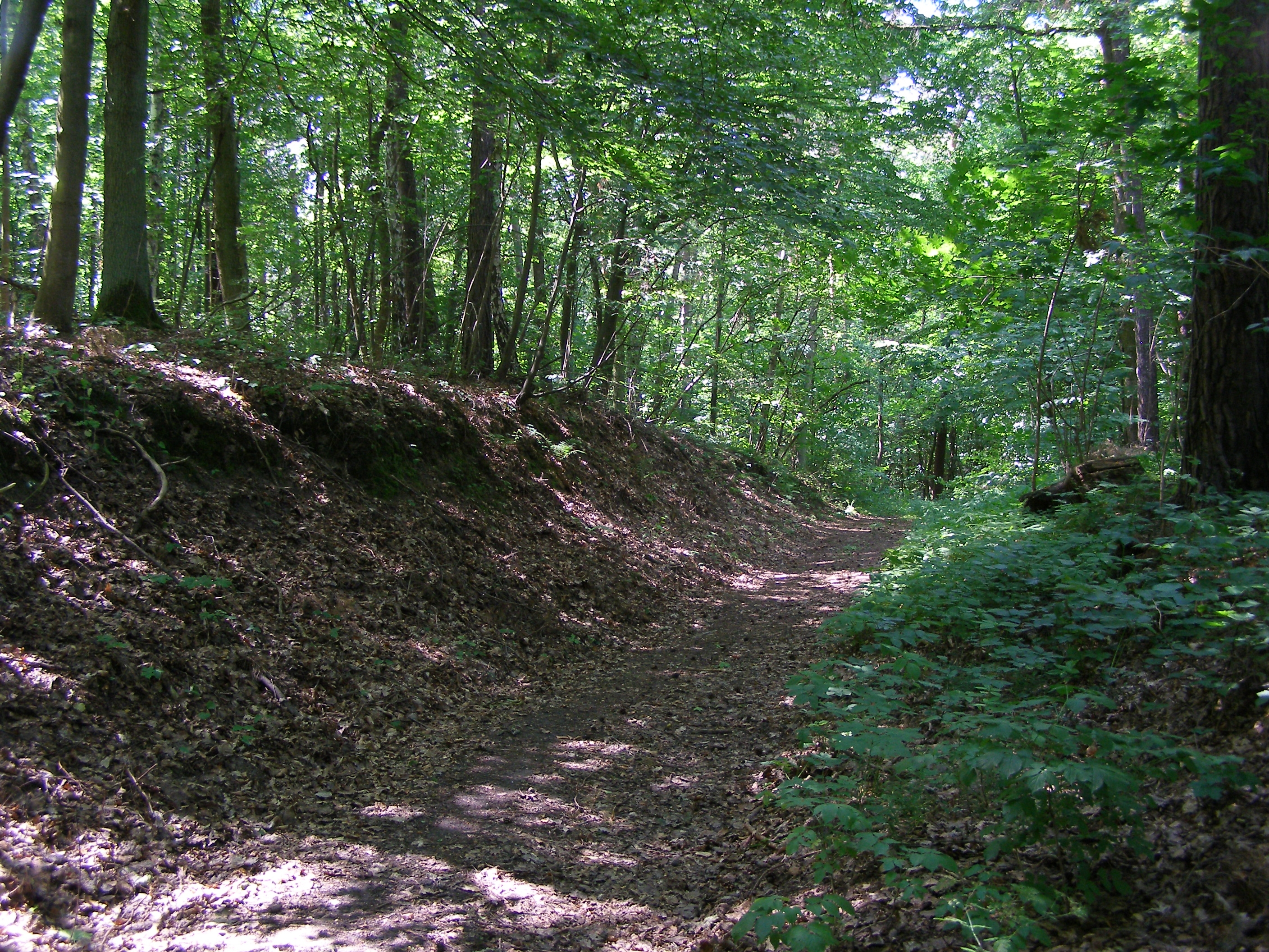 Bąkowo - forest of the Straszyńskie lake